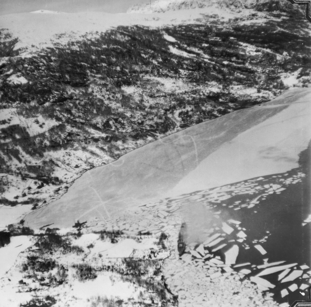 IWM caption: "The view from a 455 Squadron, RAAF, Beaufighter showing an attack on the German Narvik class destroyer, Z-33 in the ice bound Forde Fjord. Four Squadrons of Beaufighters from the Dallachy Wing took part in the strike, including 11 Beaufighters from 455 Squadron, RAAF. It was led by 402379, Wing Commander Colin George Milson, RAAF, DSO and Bar, DFC and Bar. The Wing suffered badly from accurate anti aircraft fire and was also intercepted and attacked by German Focke-Wulf 190 fighters. One Australian Beaufighter, UB-O, NV 199, crewed by 413227 Flight Lieutenant Robert Charles McColl, DFC, pilot and 421749 Warrant Officer (WO) Leslie Leonard MacDonald, navigator, was shot down. The crew survived but were taken prisoner. A second Beaufighter, UB-V, NV 196, crewed by 410694 WO Donald Earnest Mutimer, pilot and 432095 Pilot Officer John Douglas Blackshaw, navigator, was also shot down and both crew members perished. A costly raid, with nine Beaufighters lost from the Wing and only the German destroyer Z-33 damaged in the strike."